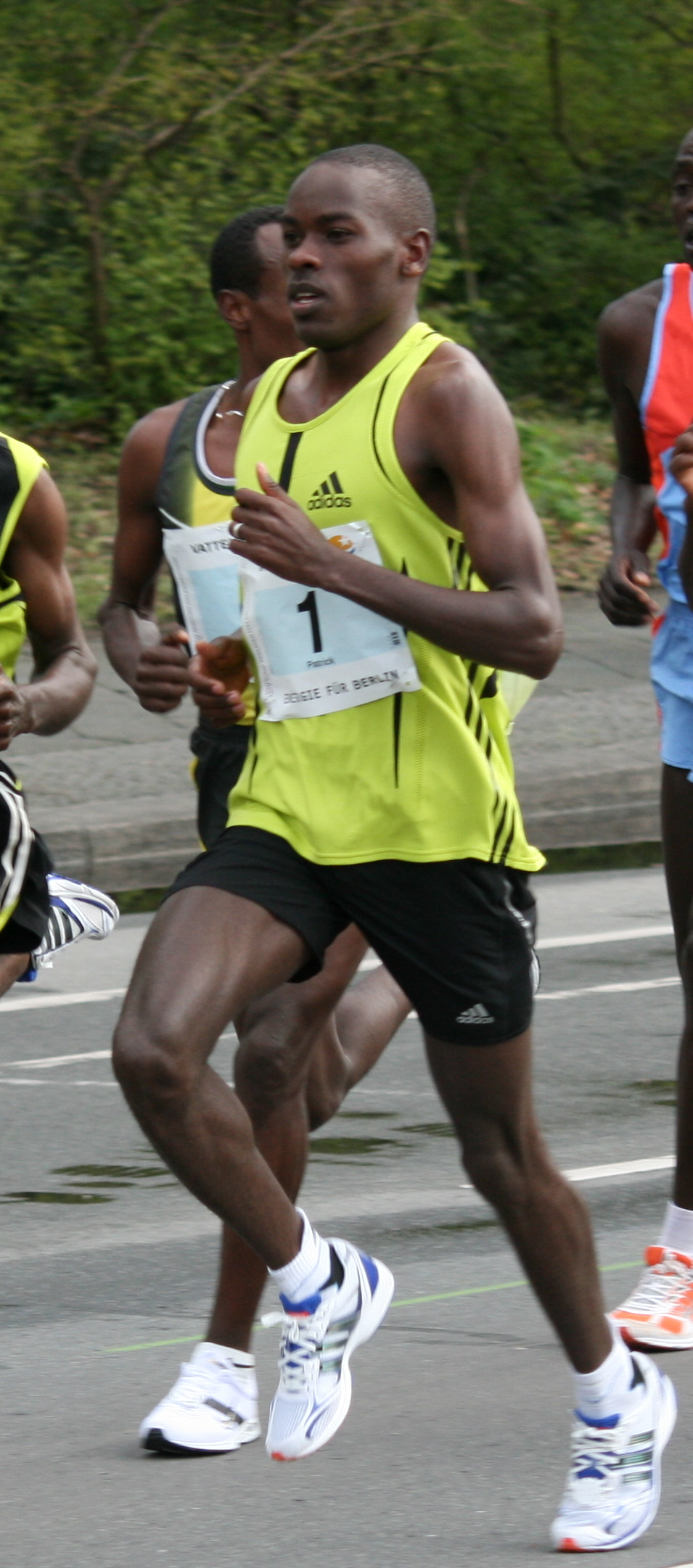 Patrick Makau Musyoki at the Berliner Halbmarathon 2008